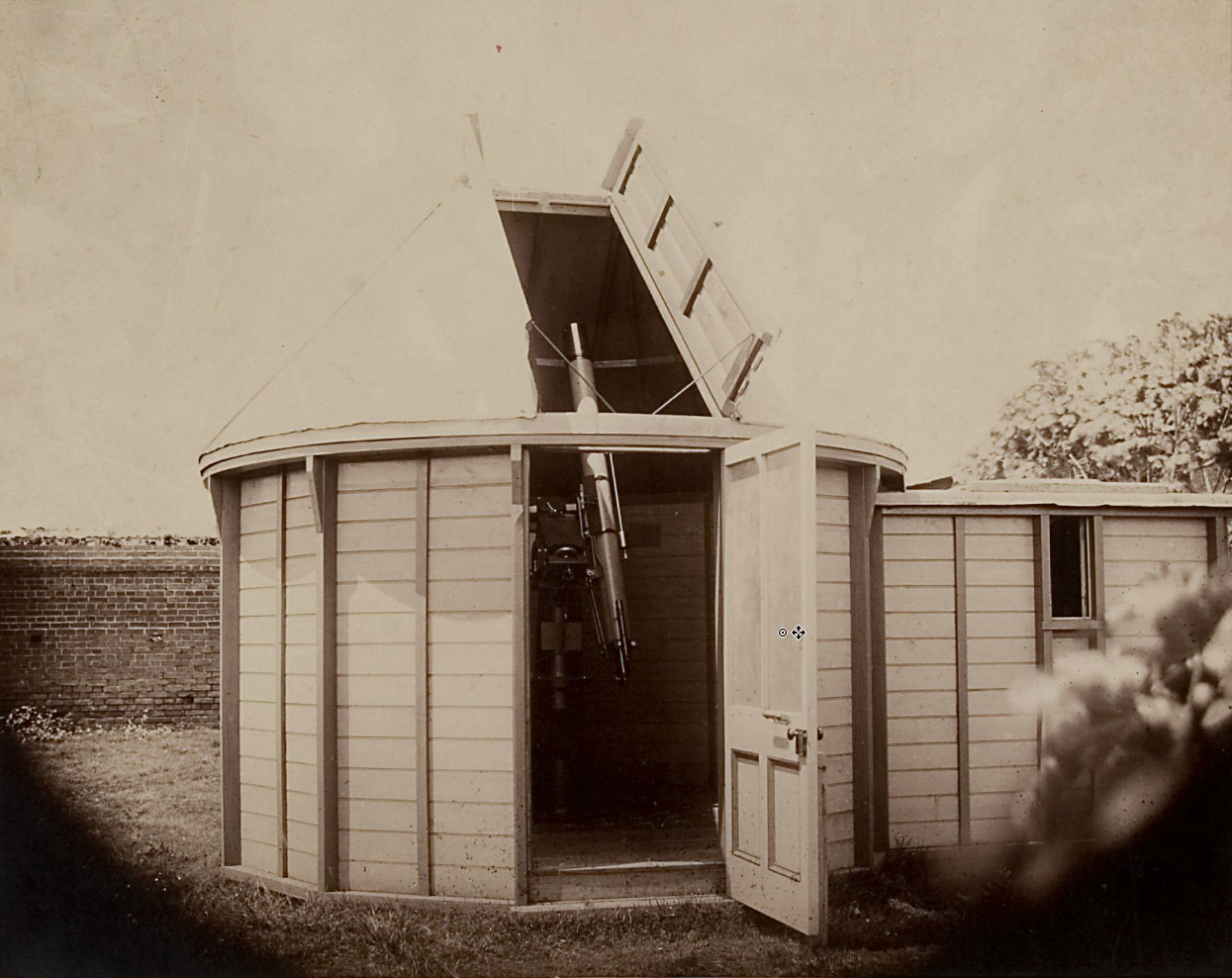 Photographic print, C. J. Merfield's observatory